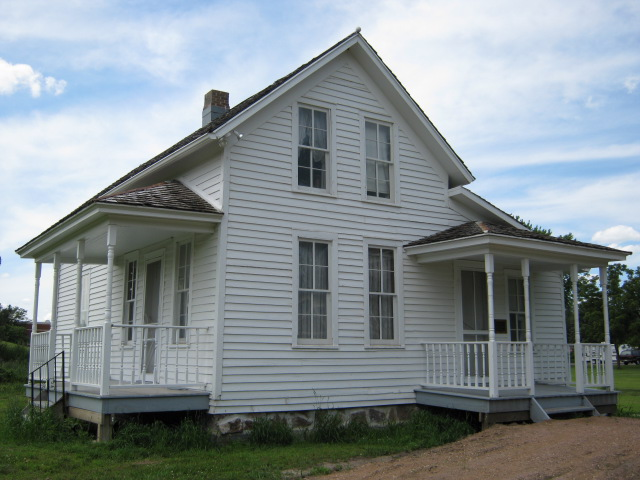 A picture of the historic Berdahl-Rolvaag House (facing the house from the southeast), where Norwegian-American writer Ole Edvart Rølvaag wrote his famous novel, Giants in the Earth. It was built in 1883, and has been placed on the National Register of Historic Places.